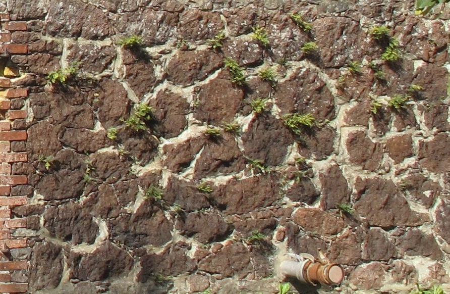 Fieldstone wall in Grunow, built probably by one glacial erratic. The village Grunow is a civil parish (Ortsteil) of the municipality Oberbarnim in the District Märkisch-Oderland, Brandenburg, Germany. Grunow was first mentioned in written documents in 1315 and is situated on the Barnim Plateau in the Märkische Schweiz Nature Park. In 2010 the village had about 350 inhabitants (incl. it’s part Ernsthof). Due to its fieldstone-Builsdings and –streets Grunow is a part of the Oberbarnimer Feldsteinroute, a 41,5 kilometers long walking and bike trail in the traces of the building material fieldstone.